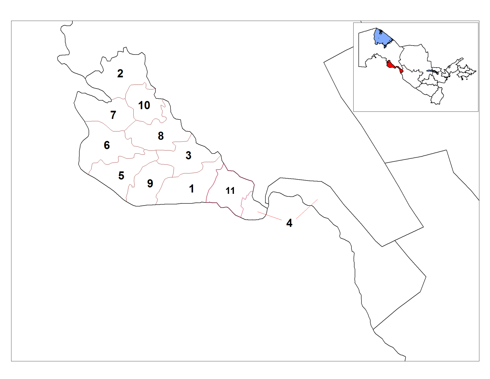 Map of the districts (tuman) of the province (viloyat) of Xorazm in Uzbekistan.